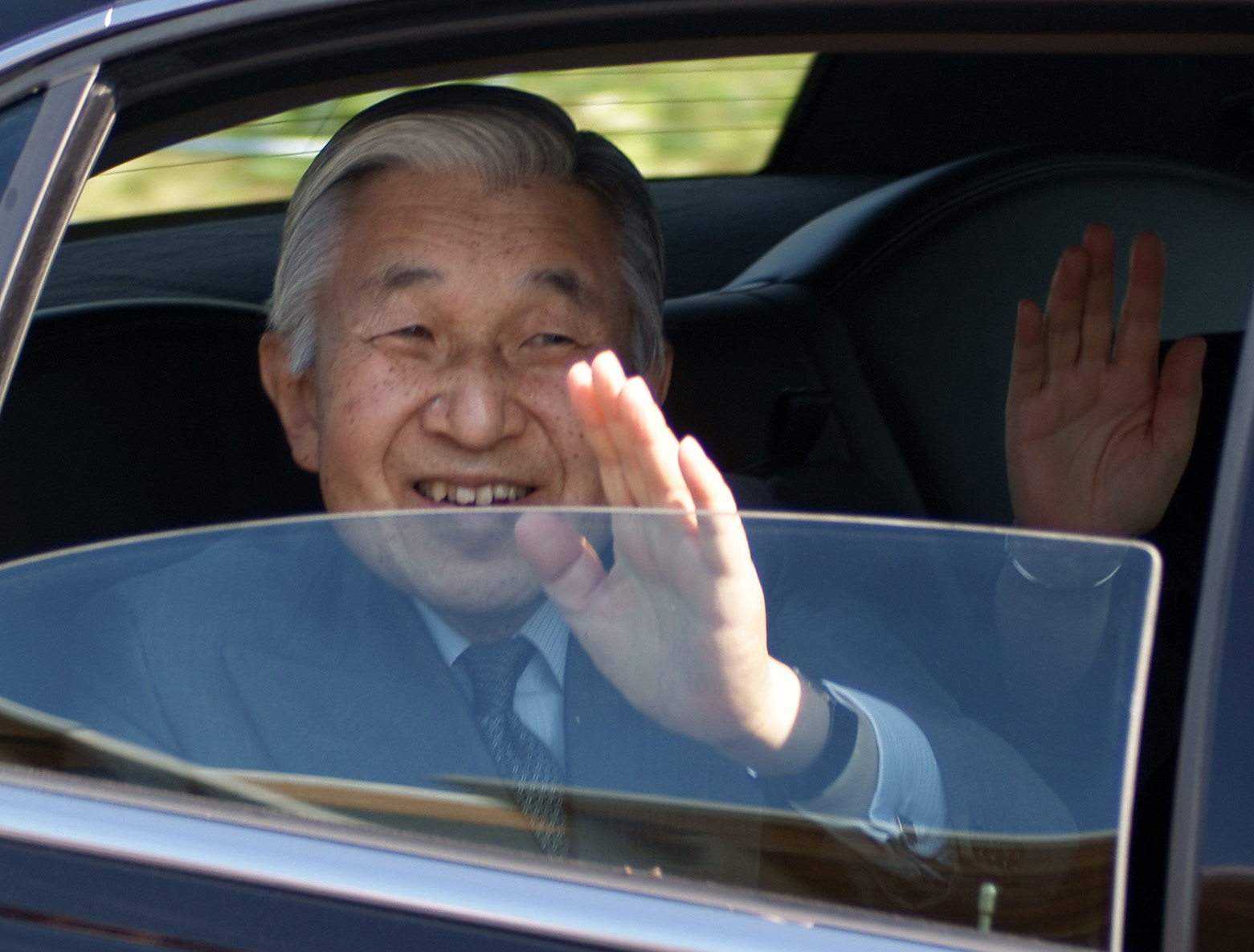 Emperor Akihito at the Richmond Olympic Oval in Richmond, B.C., Canada on July 10, 2009.